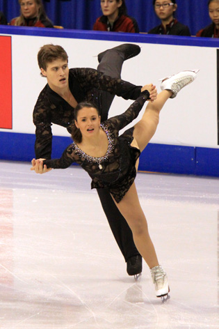 Ksenia Ozerova and Alexander Enbert at the 2009 Skate Canada International.